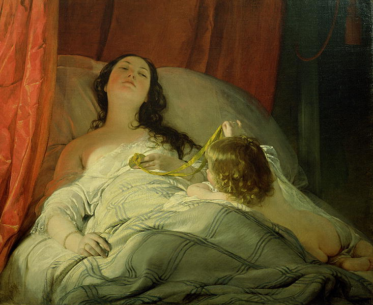 The Drowsy One